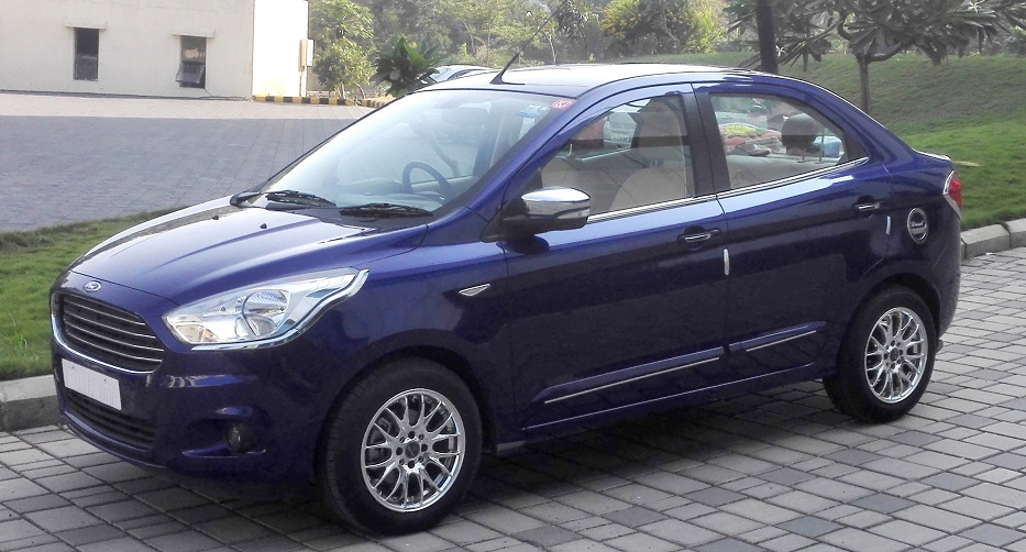 Mildly modified Figo Aspire in India